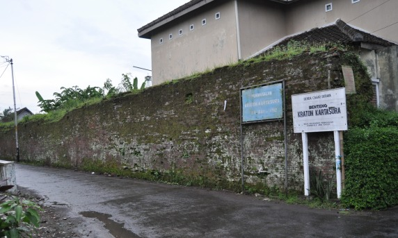 The only remains of the Kartasura Palace in Central Java, Indonesia